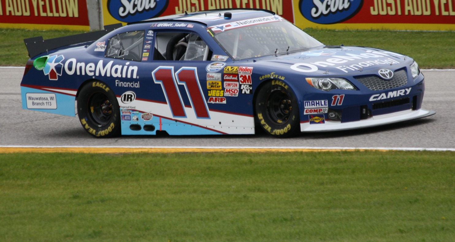 The NASCAR Nationwide car of Elliott Sadler during the w:2013 Johnsonville Sausage 200 at Road America.